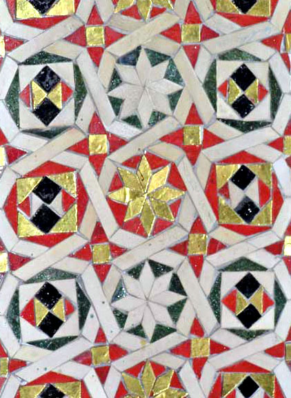 Detail of Mosaic (interior), Monreale, Italy